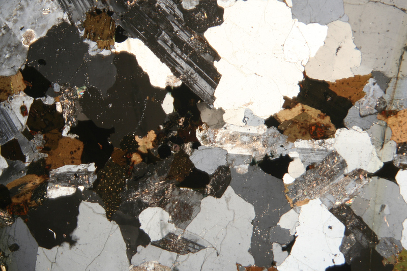 Siim Sepp, 2006 Igneous rock granite. Photomicrograph with crossed polars. The width of the view is approximately 0,4 cm. Main minerals are quartz, potassium feldspar (perthitic orthoclase), plagioclase and biotite. Dark spots on the surface of biotites are pleochroic haloes created by zircon inclusions.